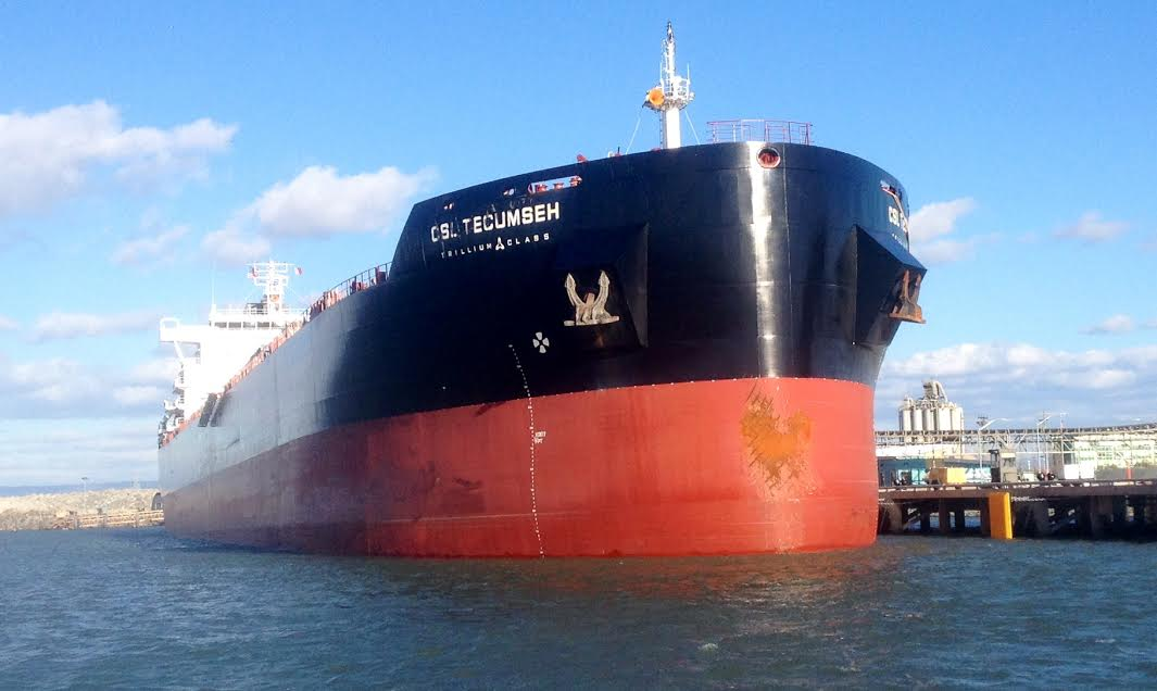 Unloaded dry bulker, Trillium Class, at the Port of Redwood City